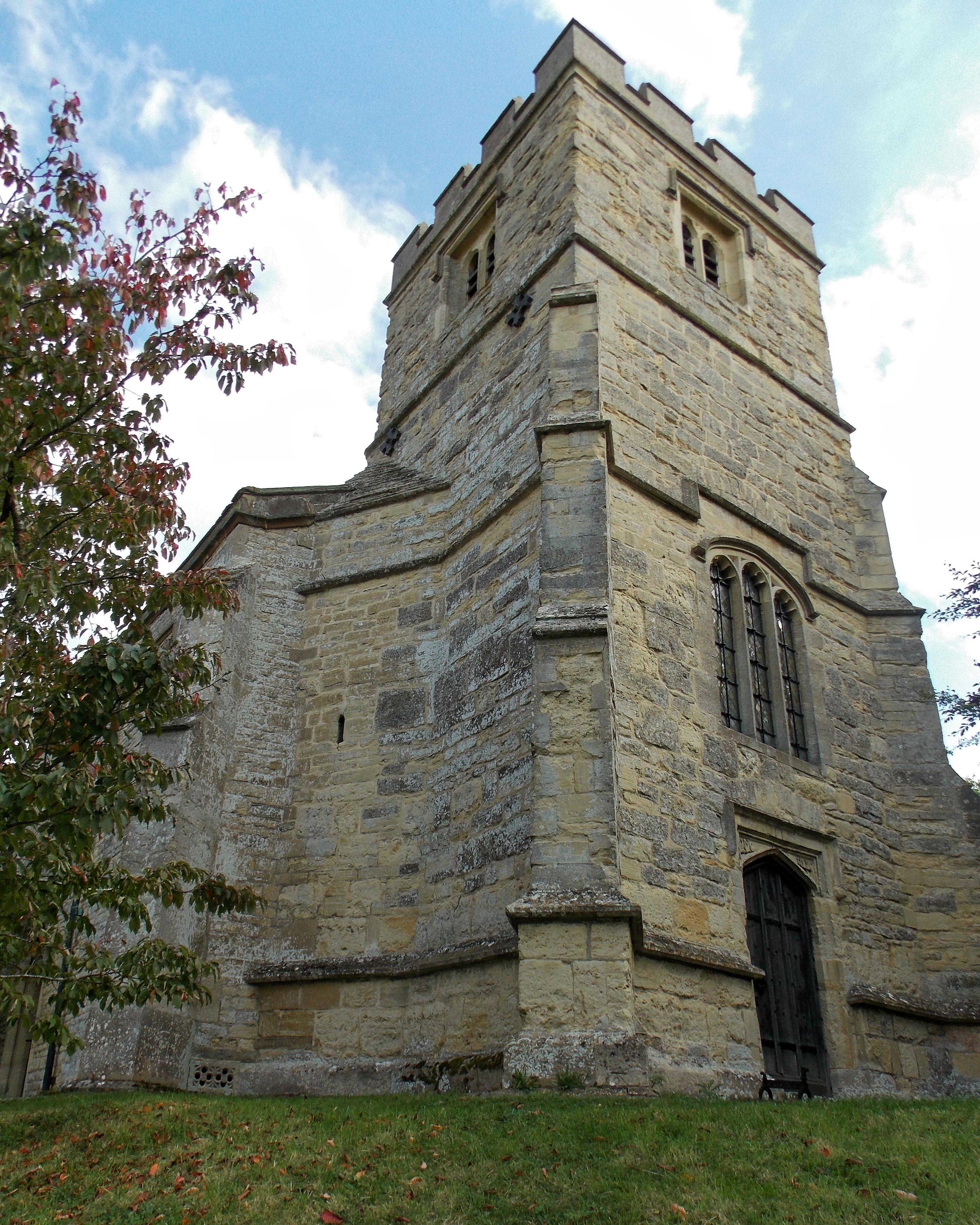 West tower of All Saints' parish church, Middle Claydon, Buckinghamshire, England, seen from the northwest.Software: JPEG file optimized and/or cropped and/or spun with DxO OpticsPro 10 Elite.